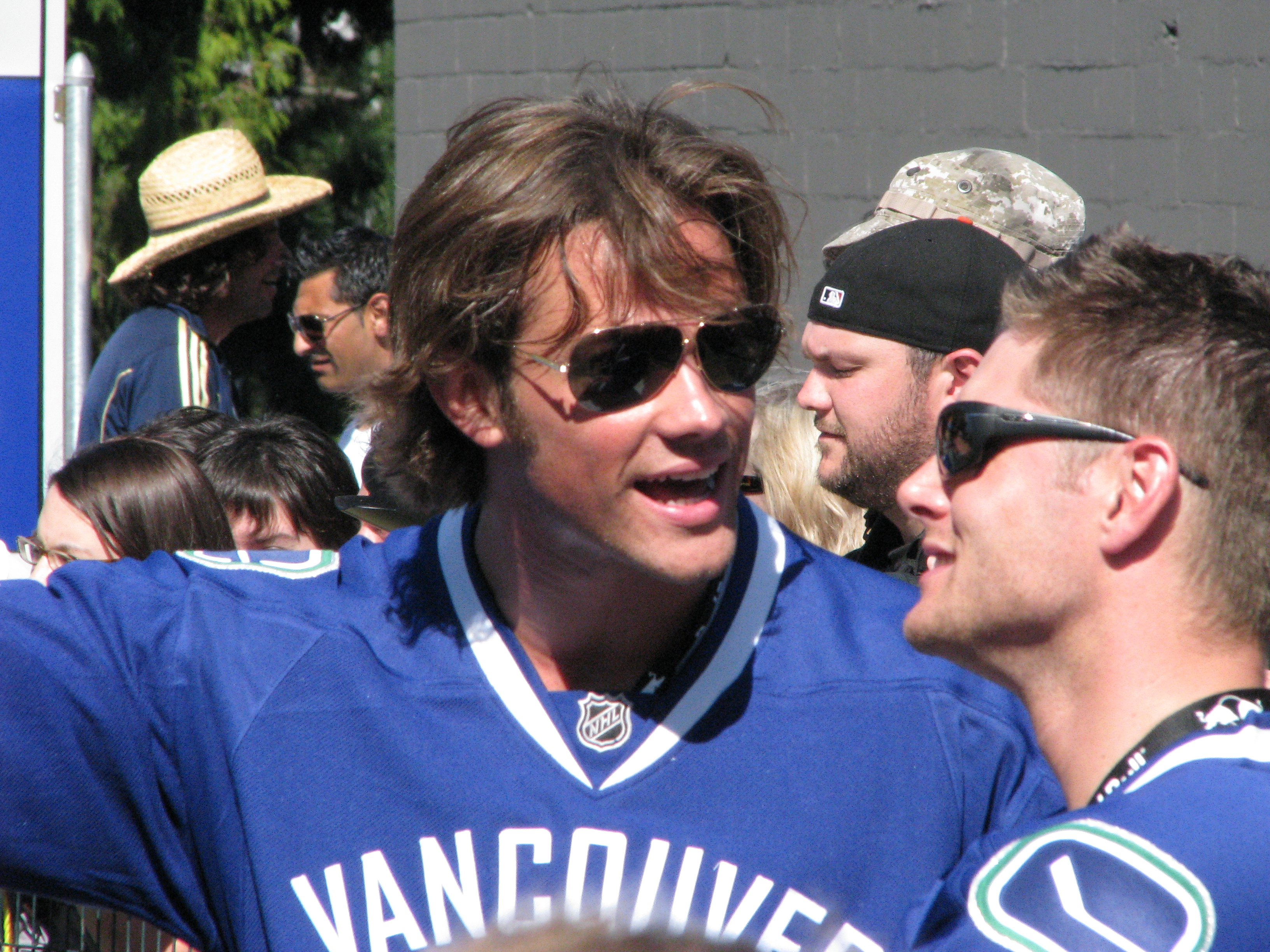 Jensen Ackles and Jared Padalecki at the 2008 Red Bull Soapbox Race